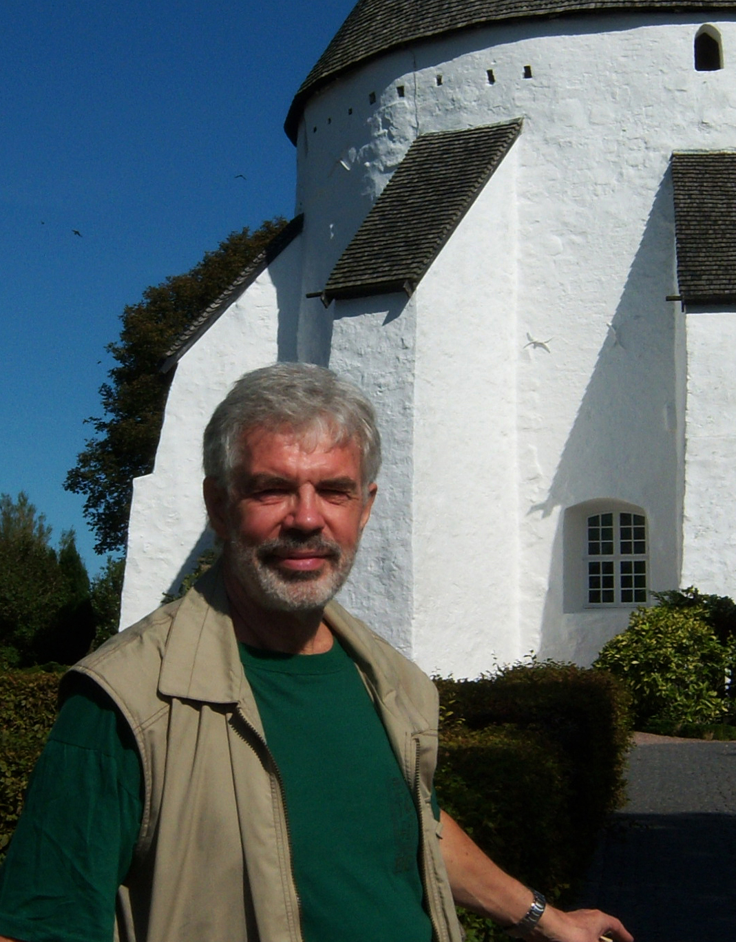 Independent scholarOve von Spaeth in front of the historical Oesterlars round church on the Danish island Bornholm at the Baltic Sea.